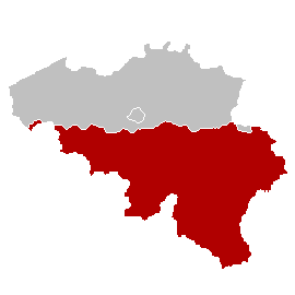 Wallonia highlighted against map of Belgium